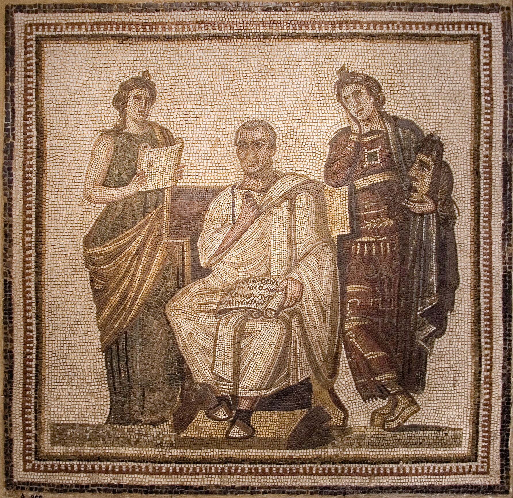 The great Latin poet, Virgil, holding a volume on which is written the Aenid. On either side stand the two muses: "Clio" (history) and "Melpomene" (tragedy). The mosaic, which dates from the 3rd Century A.D., was discovered in the Hadrumetum in Sousse, Tunisia and is now on display in the Bardo Museum in Tunis, Tunisia.